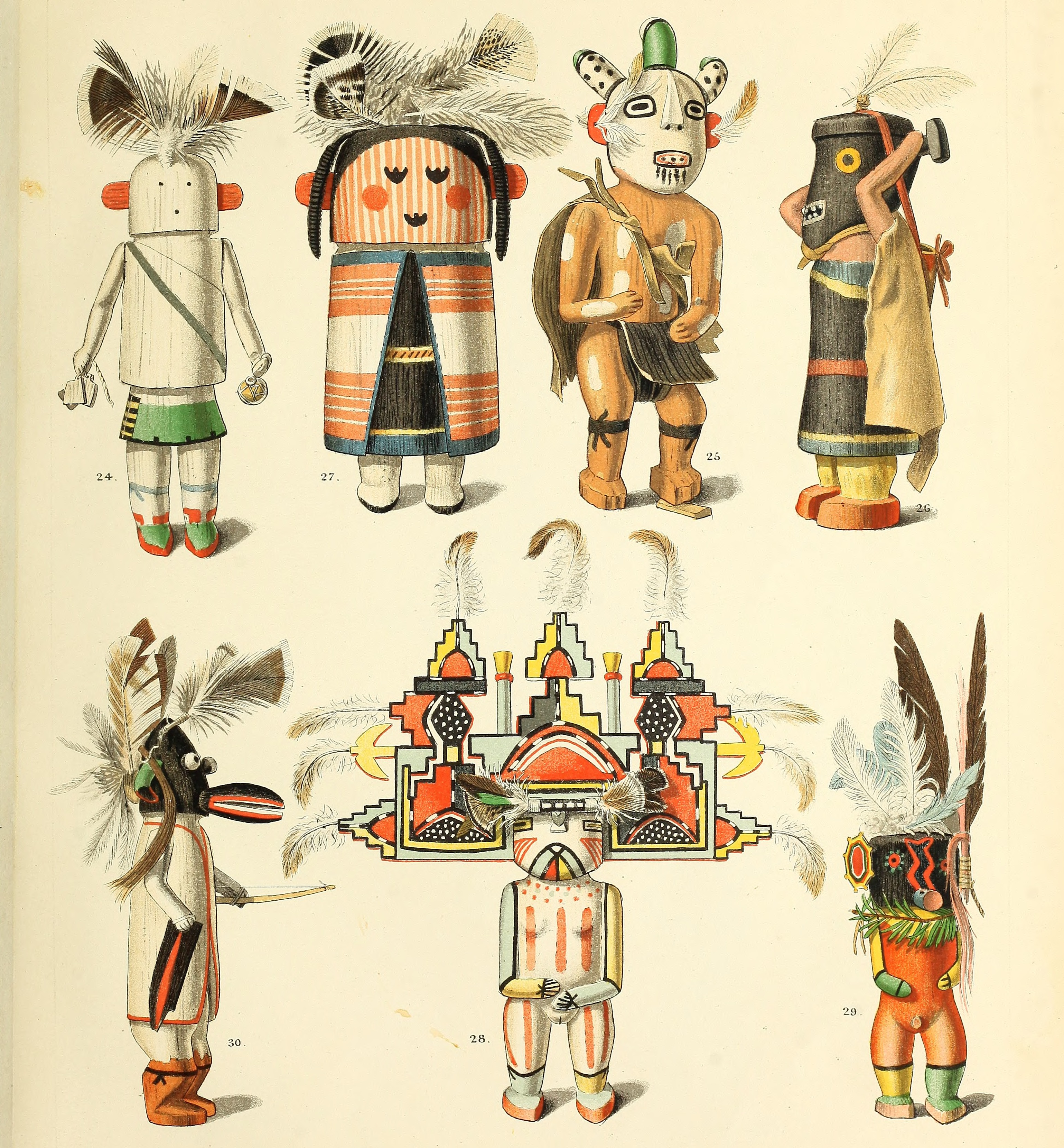 Title: Dolls of the Tusayan Indians Year: 1894 (1890s) Authors: Fewkes, Jesse Walter, 1850-1930 Subjects: Hopi Indians Kachinas Indians of North America Publisher: Leiden, E. J. Brill Text Appearing Before Image: INT. ARCH. F. ETHNOGR. BcL.YlI. PI.. IX Text Appearing After Image: JB.ael. R.Raar lith. RlVM.T.mrp.